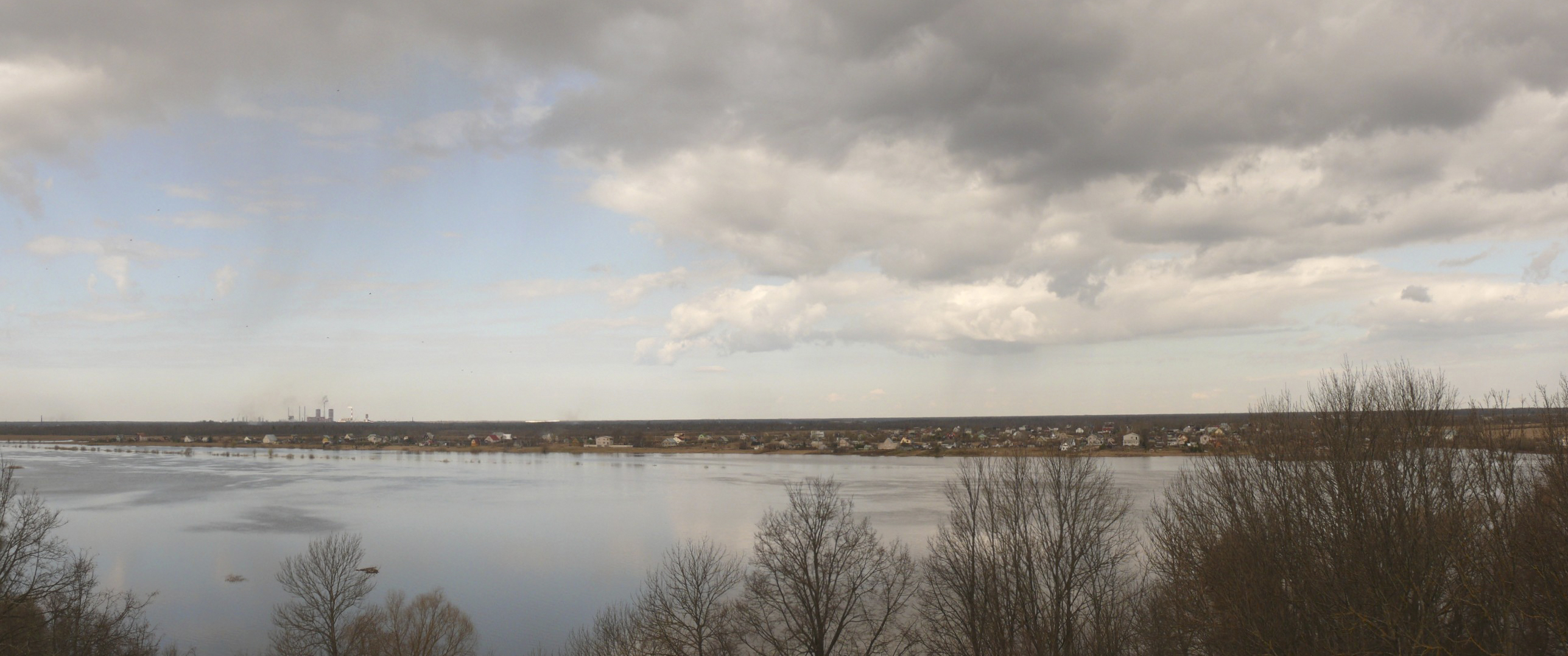 Strelka village. Novgorodsky district, Novgorod oblast, Russia